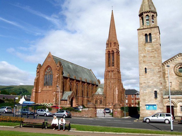 The Clark Memorial Church, Largs Gifted by John Clark of the Anchor Thread Mills, Paisley, and designed by William Kerr of T G Abercrombie, Paisley 1892. Red sandstone from Locharbriggs and Corsehill in Early English Gothic style. Superb stained glass, all manufactured in Glasgow at the height the of Arts & Crafts movement. Hammer-beam roof. Organ by Father Willis, 1892. The Church of St John, sits to the right.